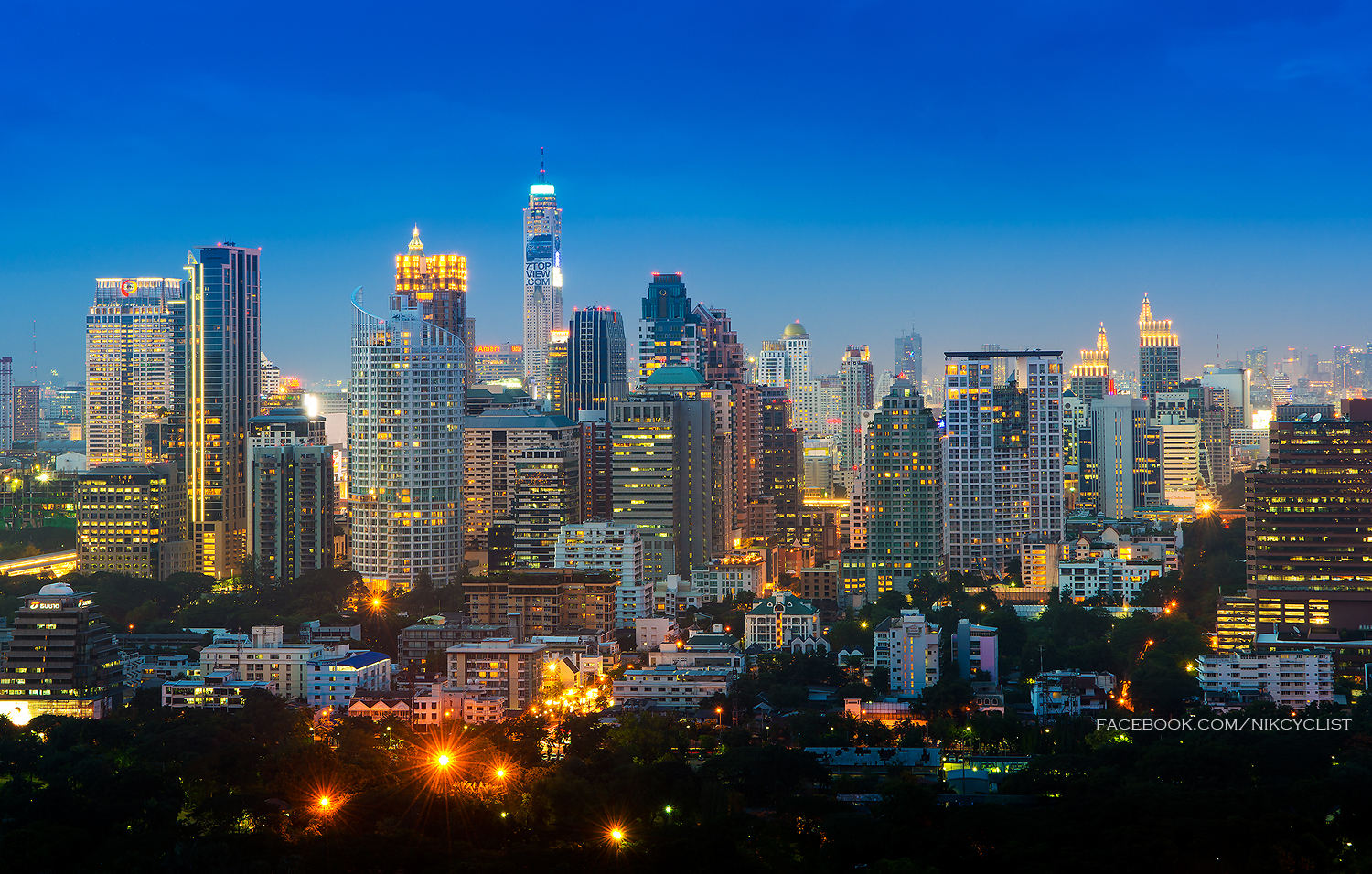 The Ratchadamri area of Bangkok at night